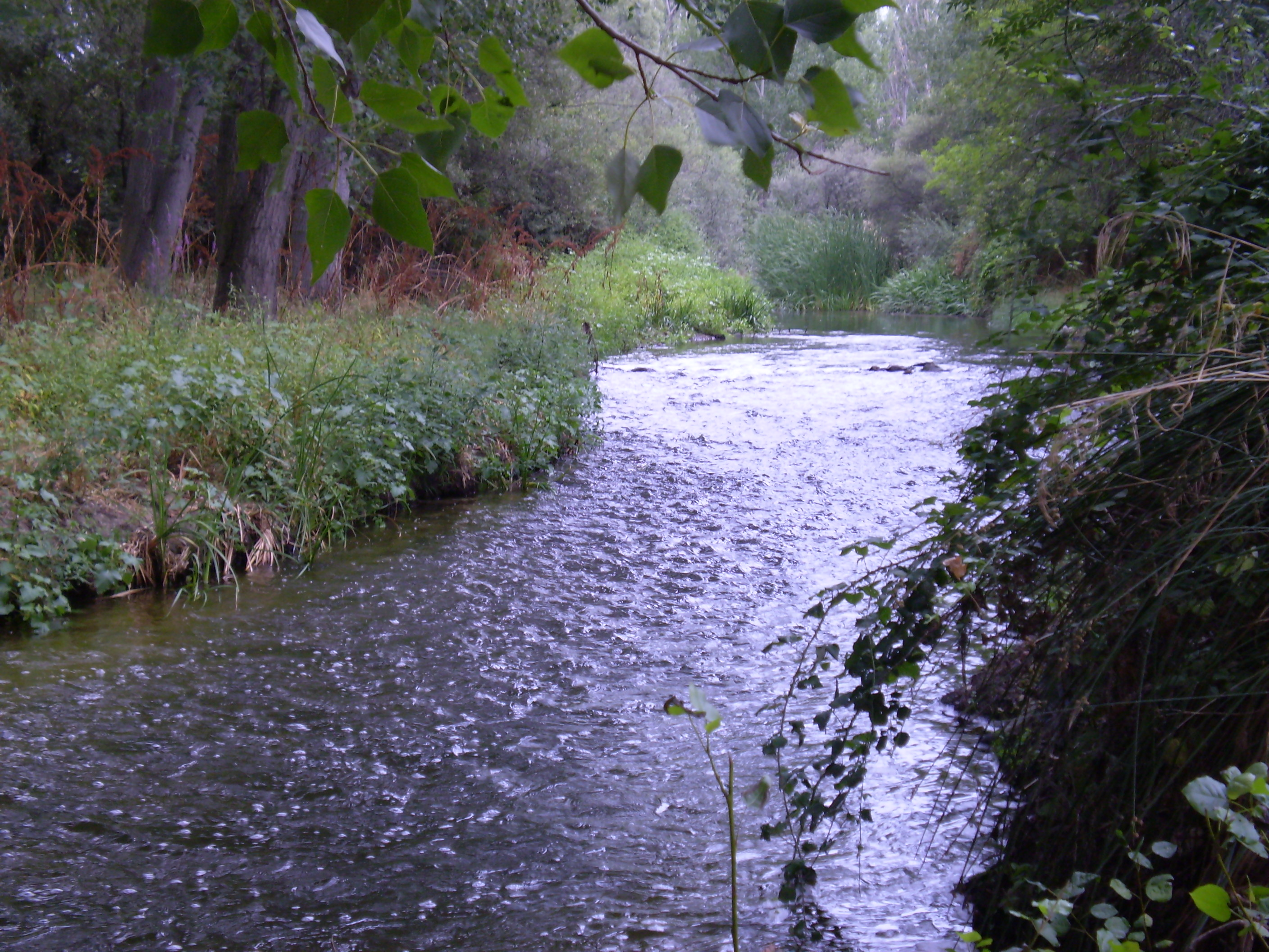 Guadarrama River. Las Rozas (Community of Madrid, Spain)